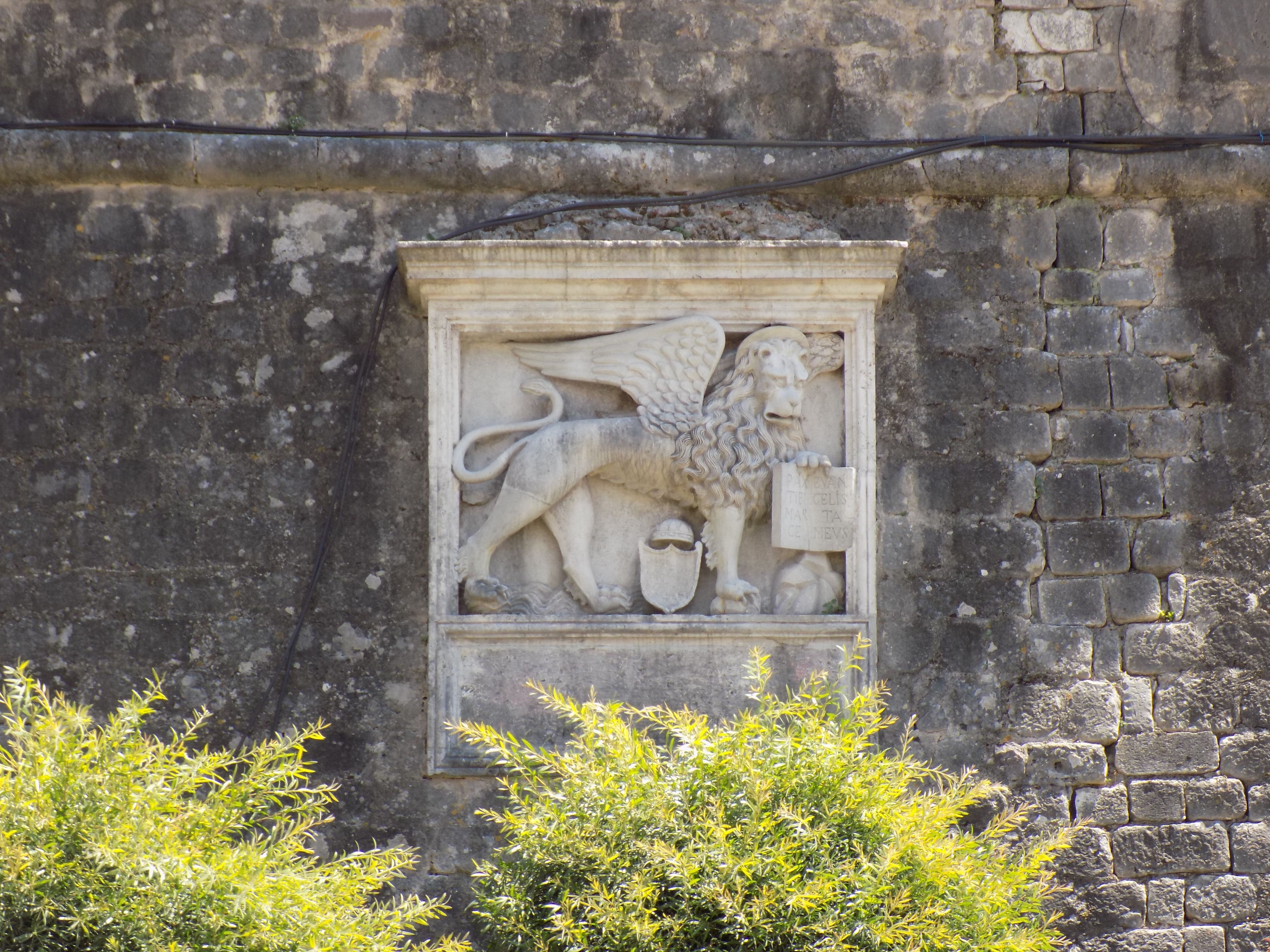 The Venetian coat on the walls near the Gate of the Sea, Kotor, Montenegro